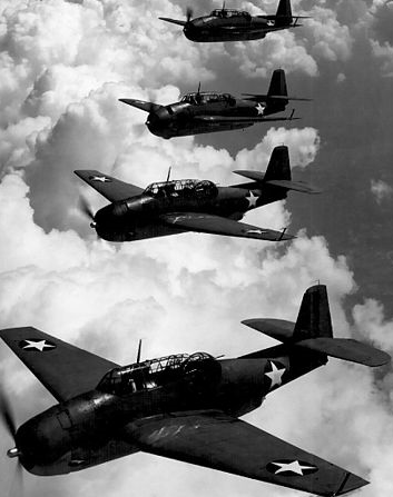 TBF (Avengers) flying in formation over Norfolk, Va., September 1942. This image is a work of a sailor or employee of the U.S. Navy, taken or made during the course of the person's official duties. As a work of the U.S. federal government, the image is in the public domain. Subject to disclaimers.